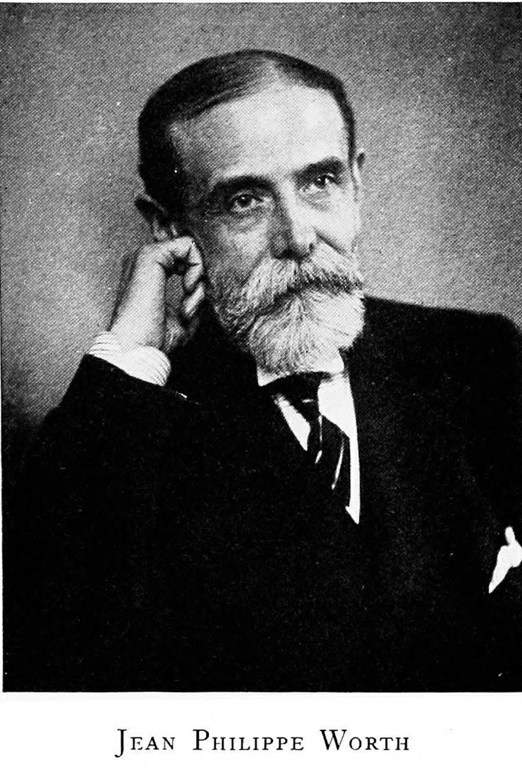 Illustration of A History of Feminine Fashion, likely commissioned by Worth.